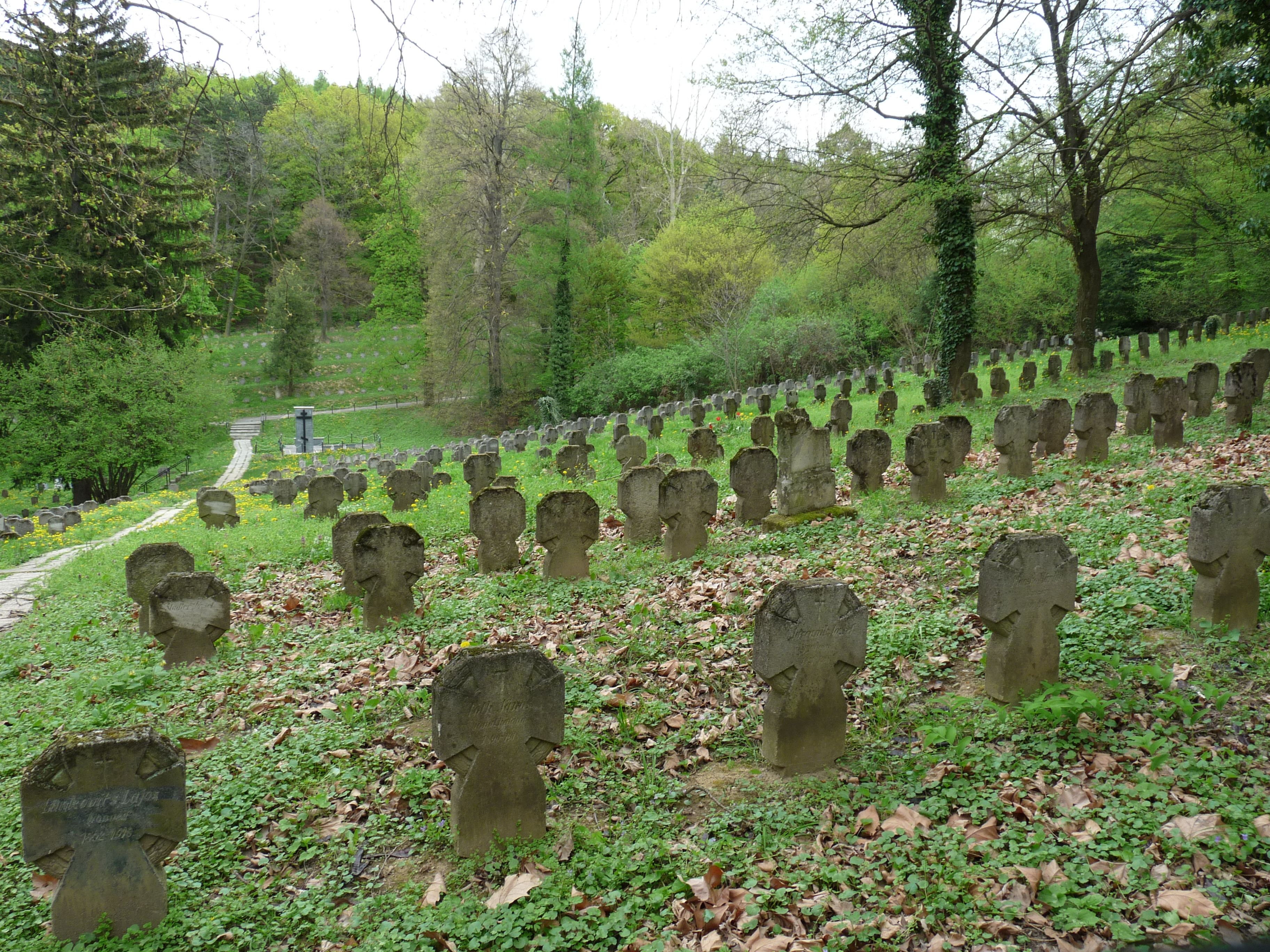 Tombs of soldiers from the First World War in the Hero Cemetery in Sopronbánfalva (Hungary).